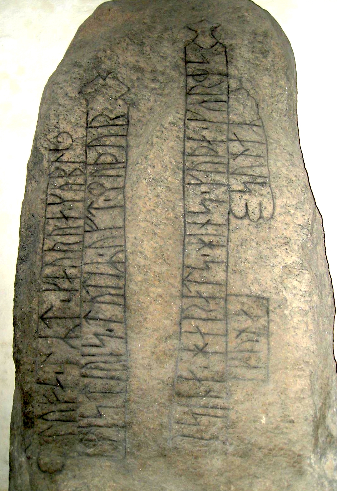 The rune stone known as Sdr. Vissing I.